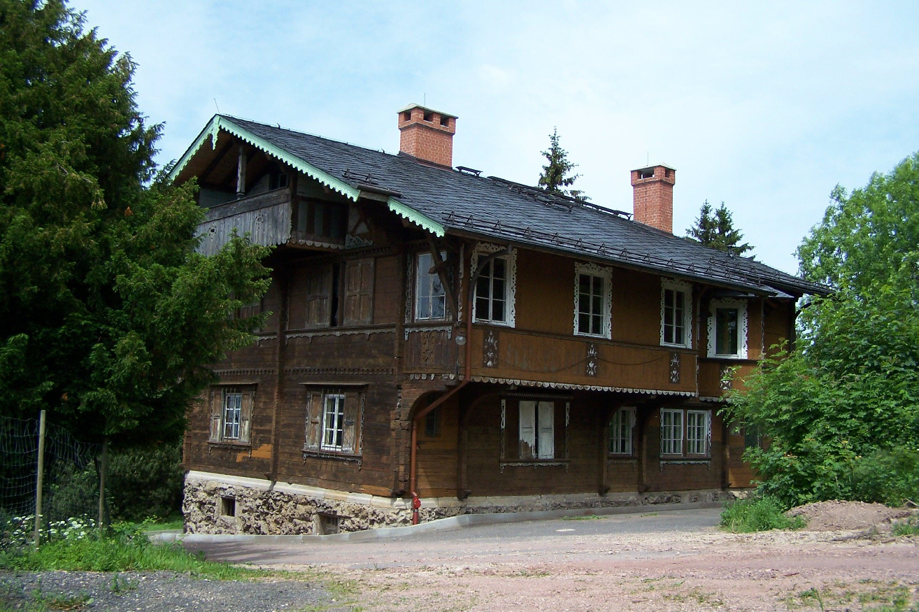 The Hunting lodge Waldhaus Kissel near Altenstein castle in Waldfisch village.